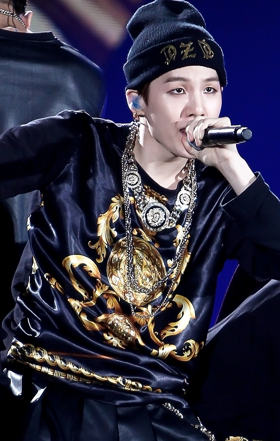 Suga at Incheon Korean Music Wave September 1, 2013.